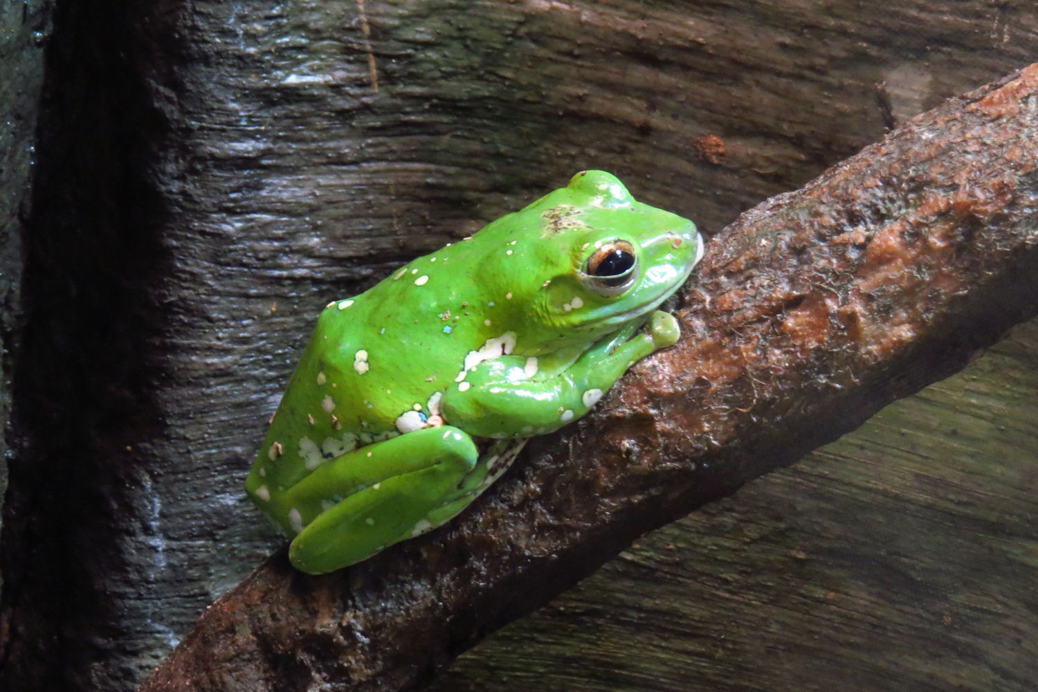 Chinese Gliding Frog (Rhacophorus dennysi), Canadian Museum of Nature